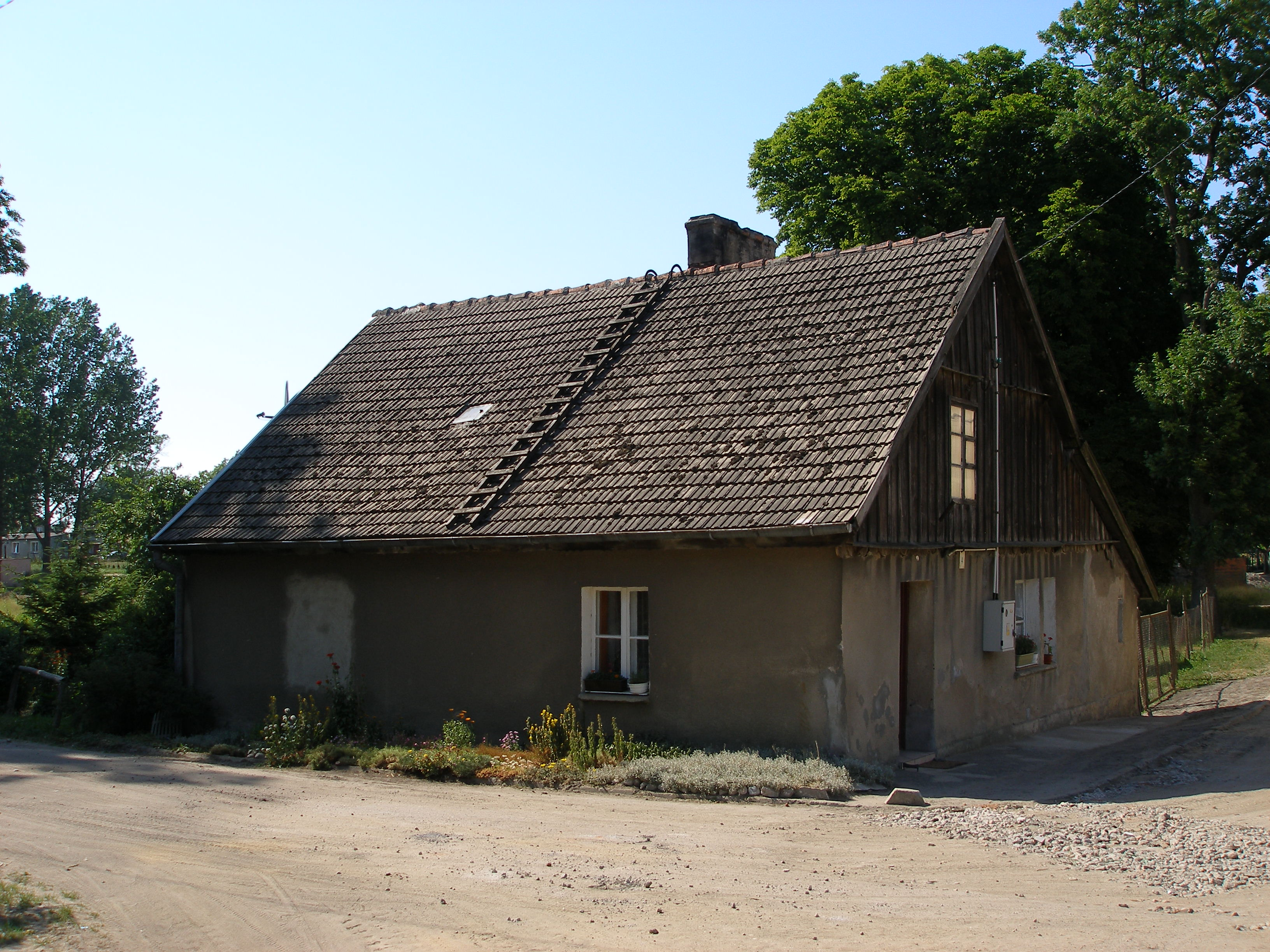 Celbowo. House